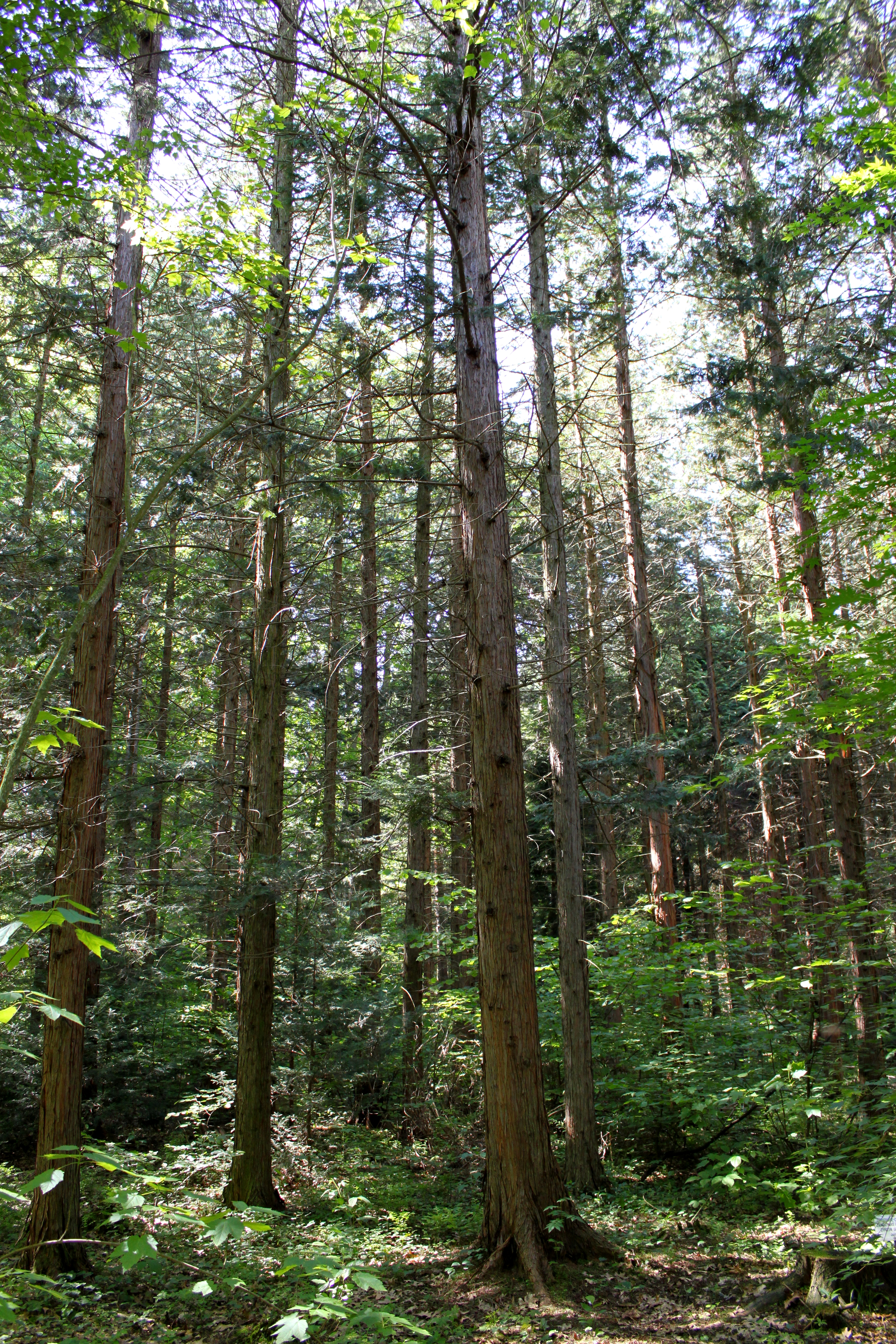 Chamaecyparis pisifera experimental forest planted in 1948; Rogów Arboretum, Poland